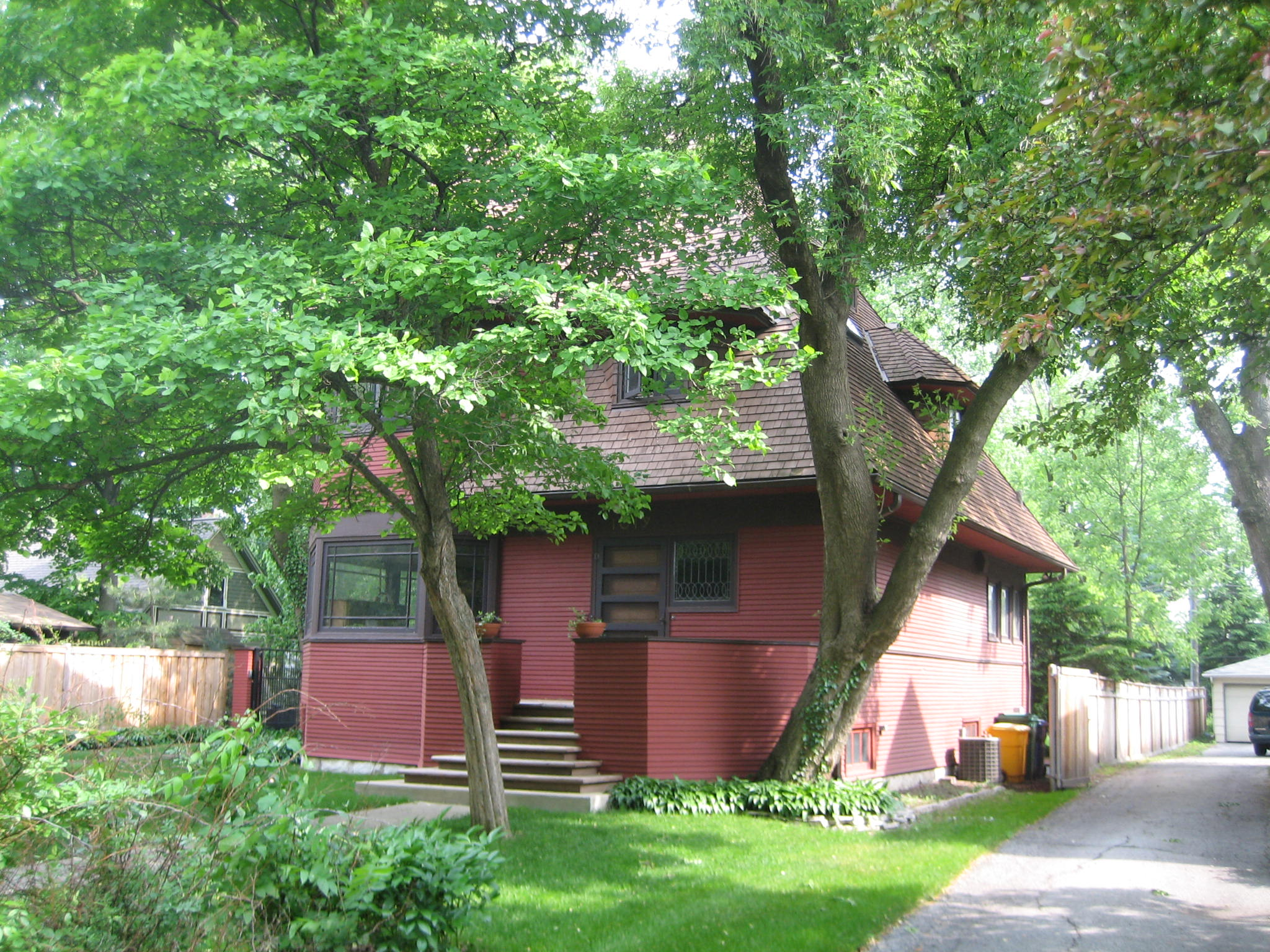 Robert P. Parker House, designed by Frank Lloyd Wright, 1892. Listed as a contributing property to the Frank Lloyd Wright-Prairie School of Architecture Historic District in Oak Park, Illinois, United States.